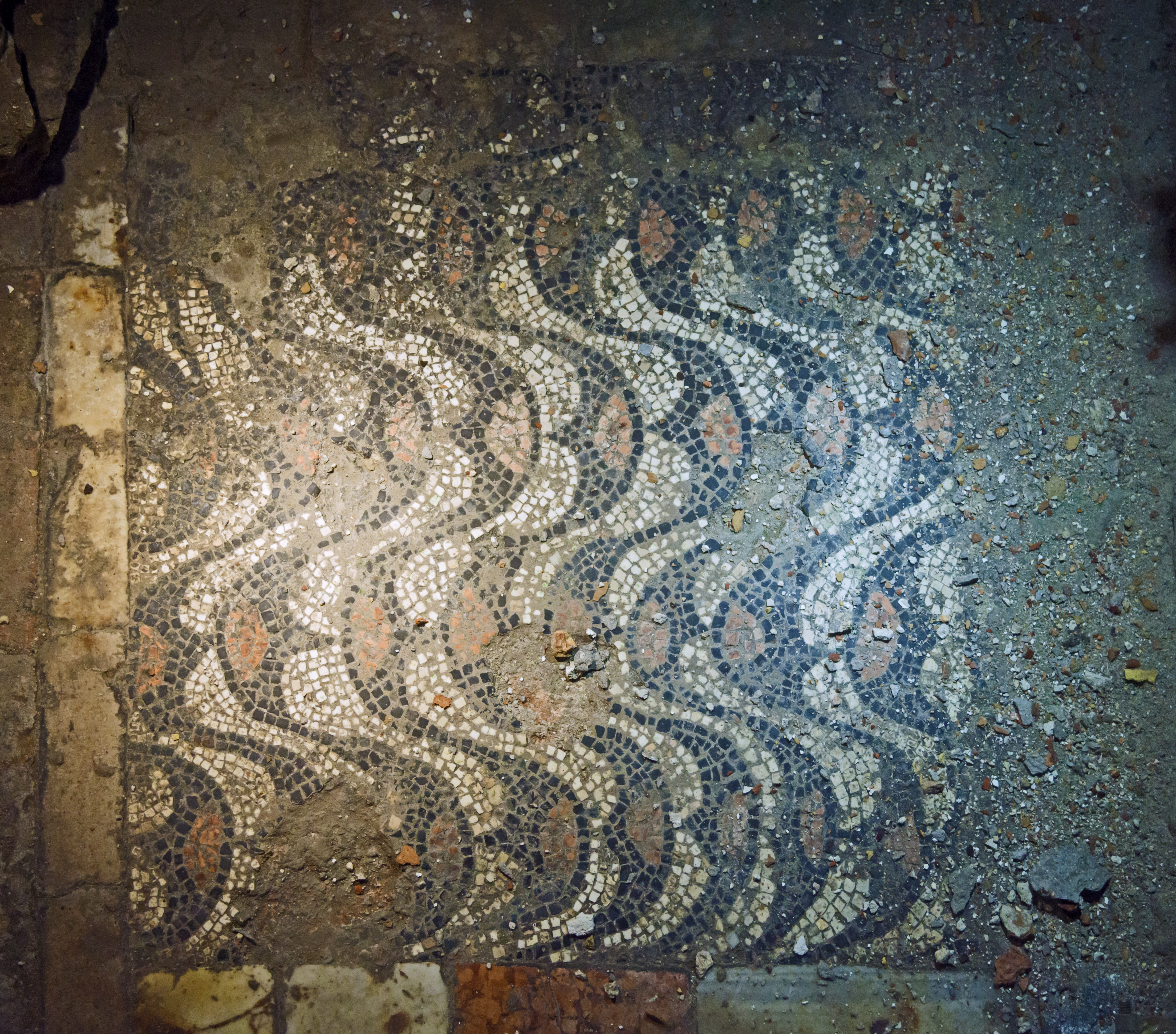 San Zaccaria in Venice - Mosaic of the ninth century